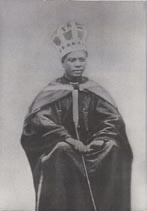 Photograph of Momolo Massaquoi of Liberia who was crowned king of the Gallinas in 1905. Massaquoi died in 1938.